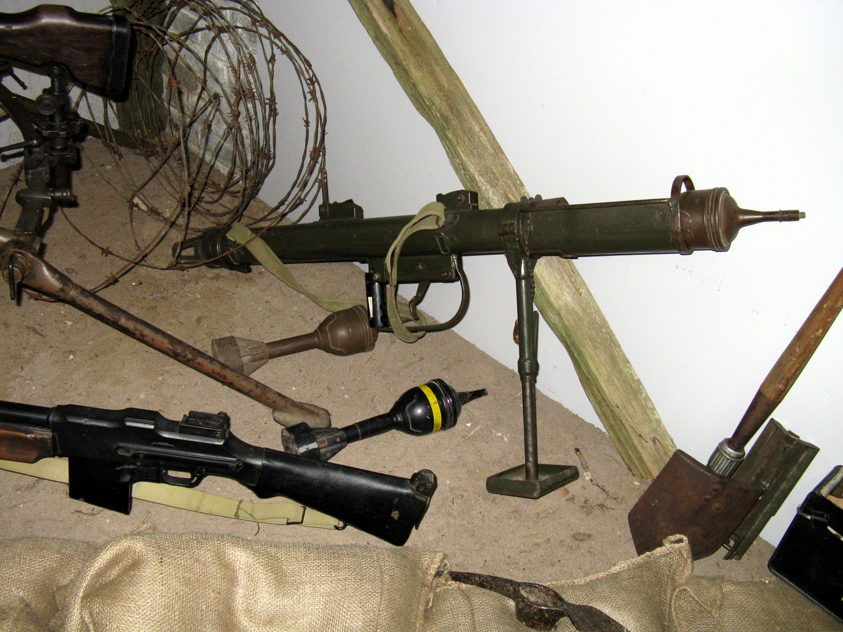 PIAT anti-tank weapon at Canadian Military Heritage Museum in Brantford, Ontario